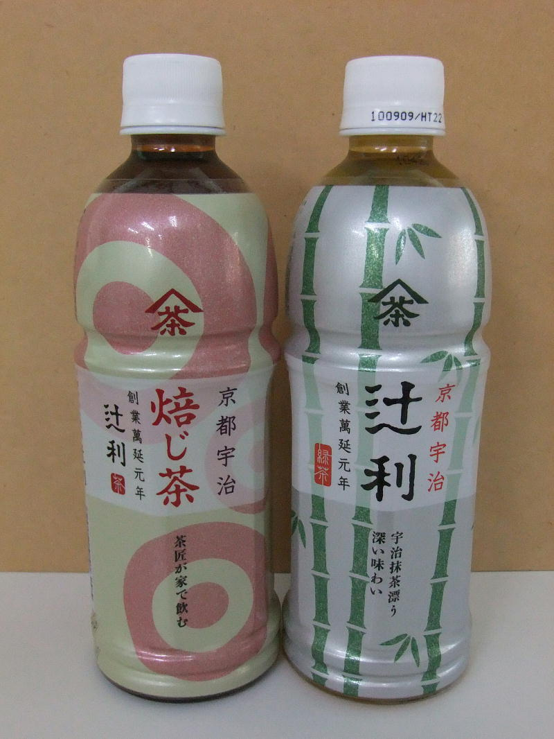 Tsujiri,Green tea. made by JT Beverages Business Division in Green tea branding name "Tsujiri"